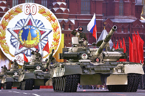 T-80BV tanks, Red Square, Moscow. Military parade celebrating the sixtieth anniversary of victory in World War II.